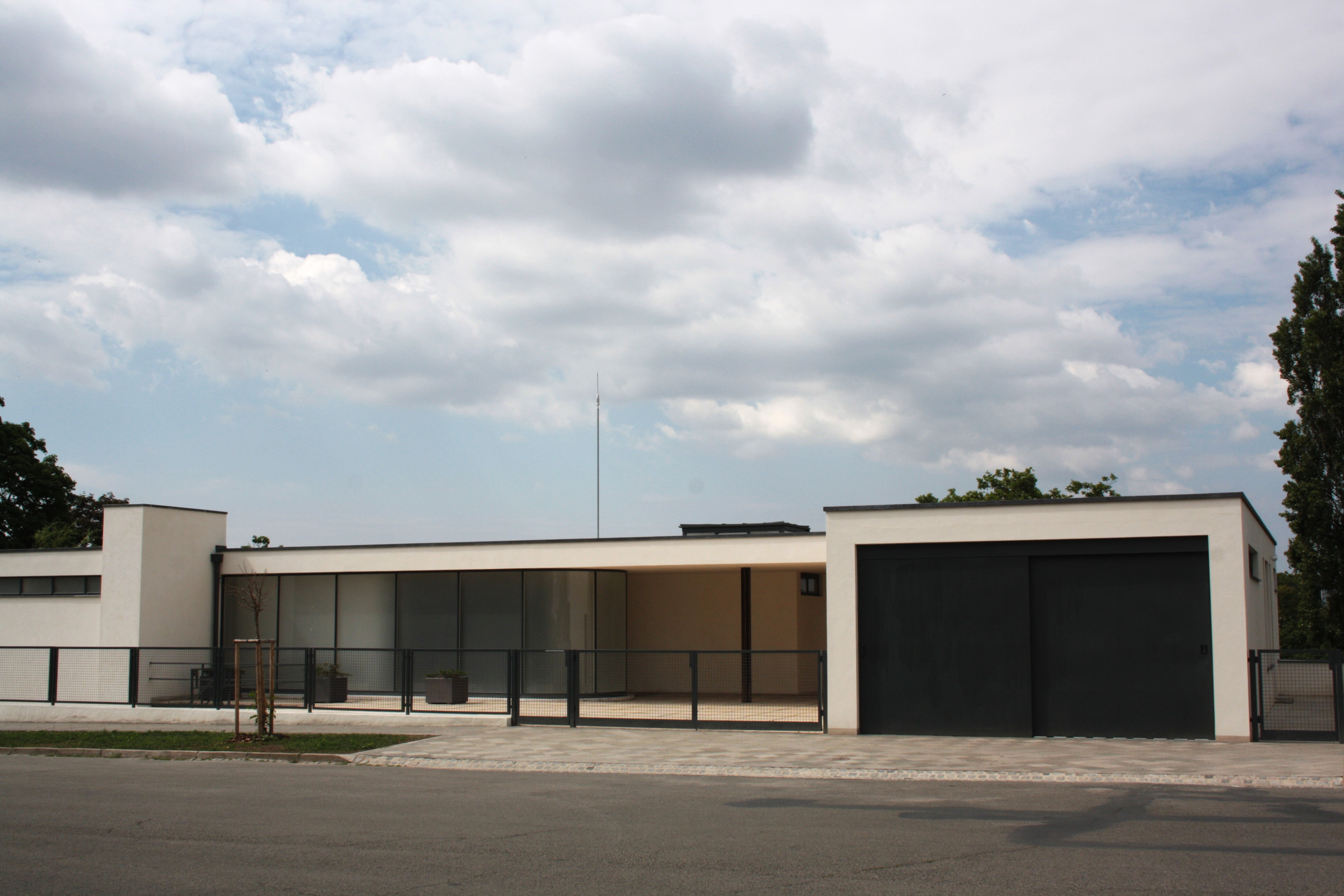 Villa Tugendhat, Brno, Czech Republic This photograph was taken with a DSLR from WMCZ's Camera grant.